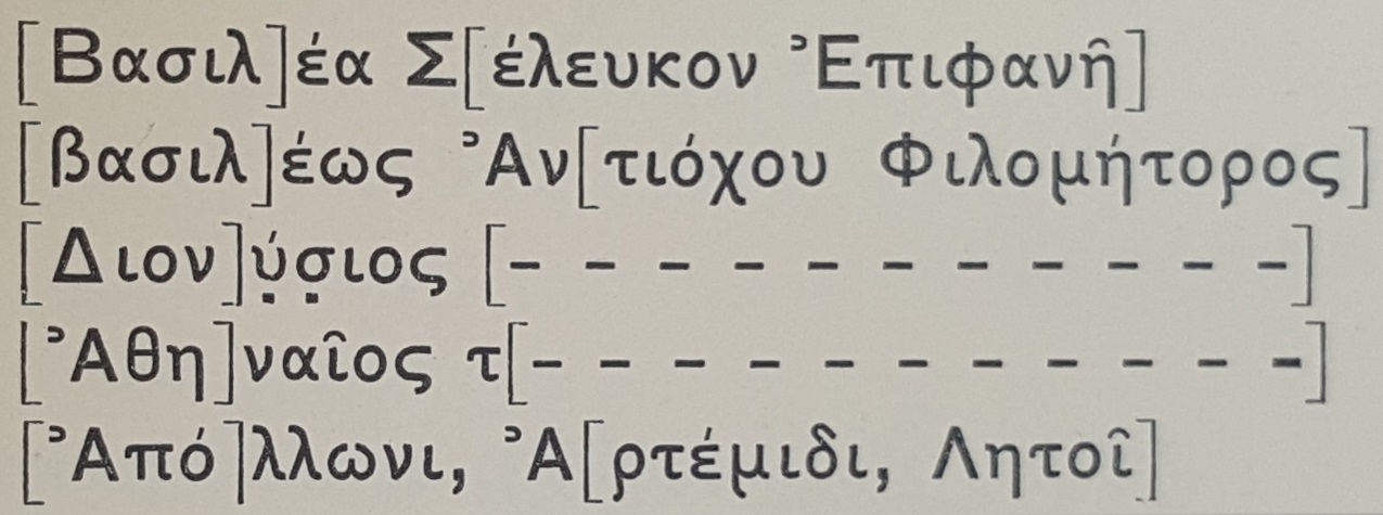 Inscription from Delos from the base of Seleucus VI's statue. It reads:[Βασιλ]έα Σ[έλευκον Ἐπιφανῆ][βασιλ]έως Ἀν[τιόχου Φιλομήτορος][Διον]ύσιος [...][Ἀθη]ναῖος τ[...][Ἀπό]λλωνι, Ἀ[ρτέμιδι, Λητοῖ]Translation: (implied: Dedicated to the) King S[eleukos Epiphanes],(son) of king An[tiochos Philometor],[Dion]ysios [...]the [Athe]nian [...]to [Apo]llo, A[rtemis, Leto].